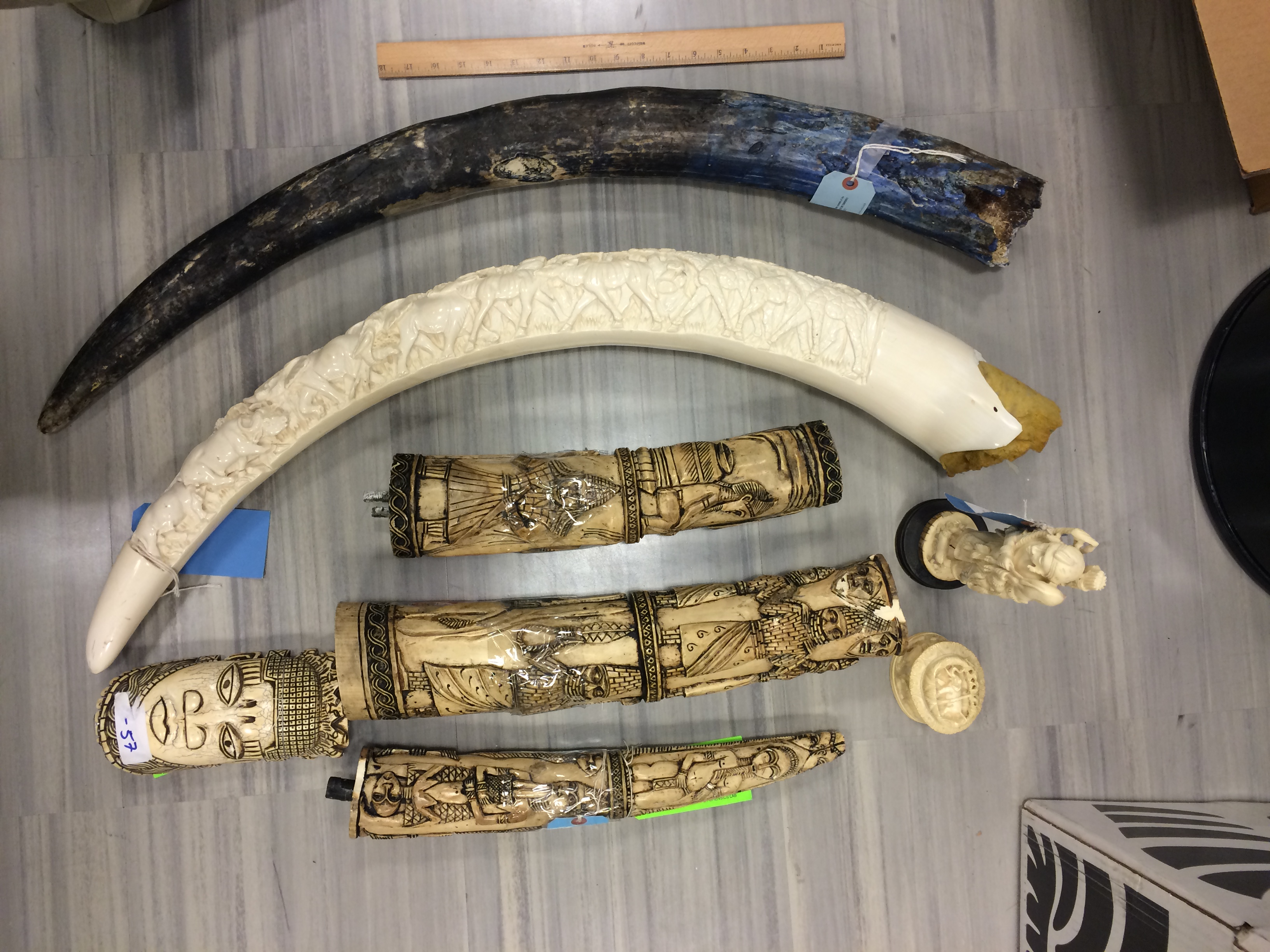 Image Credit: USFWS On June 19, 2015, in Times Square, New York City, the U.S. Fish and Wildlife Service, with wildlife and conservation partners, will host its second ivory crush event. One ton of ivory we seized during an undercover operation, plus other ivory from the New York State Department of Environmental Conservation and the Association of Zoos and Aquariums, will be crushed.